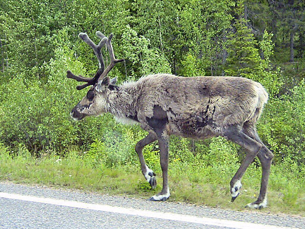 Reindeer at the roadside in the North of Finland